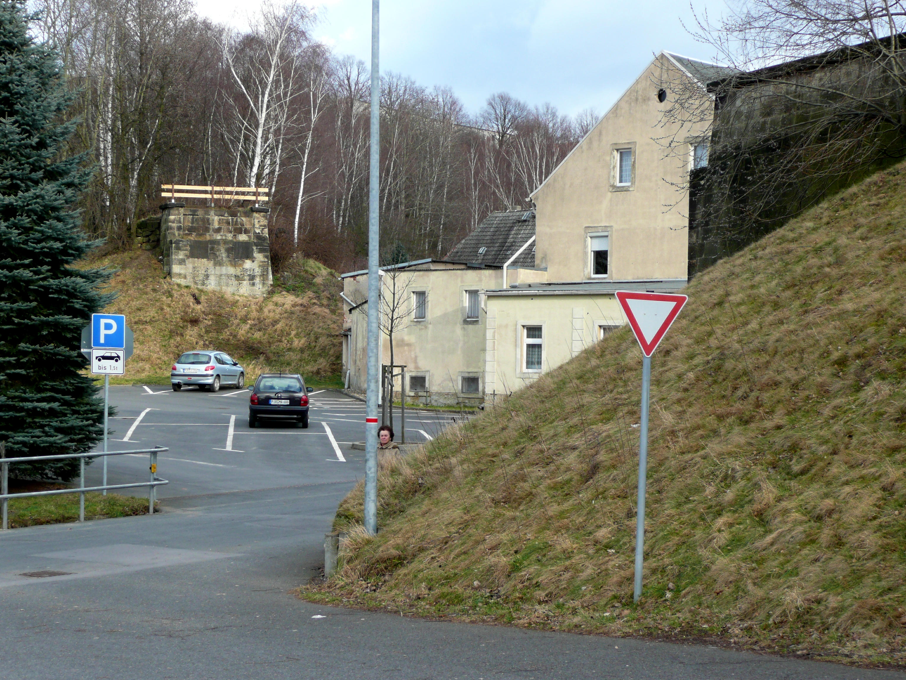 This image shows the abutments of the railway bridge in Dohma (dismantled 1980). The bridge (length 50,5 m; height 8,7 m) was part of the former railway line from Pirna to Großcotta (kilometre 6,5).